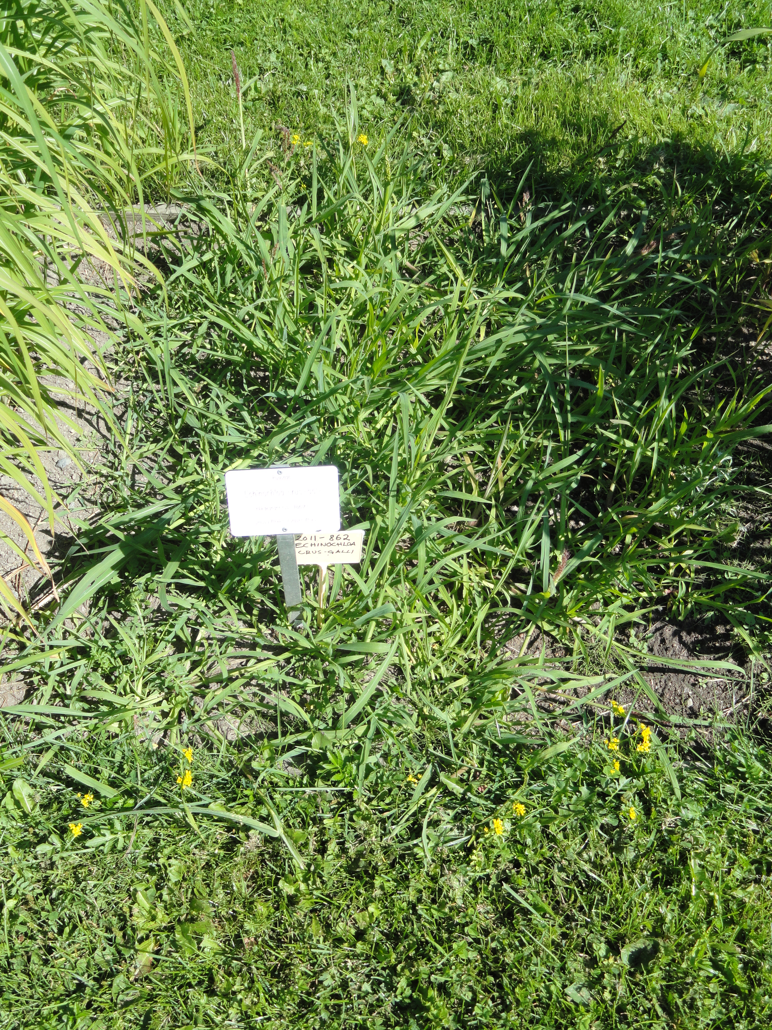 Botanical specimen. The University of Helsinki Botanical Garden at Kaisaniemi